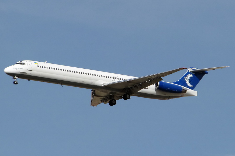 ATA Airlines MD-83 landing at Tabriz airport